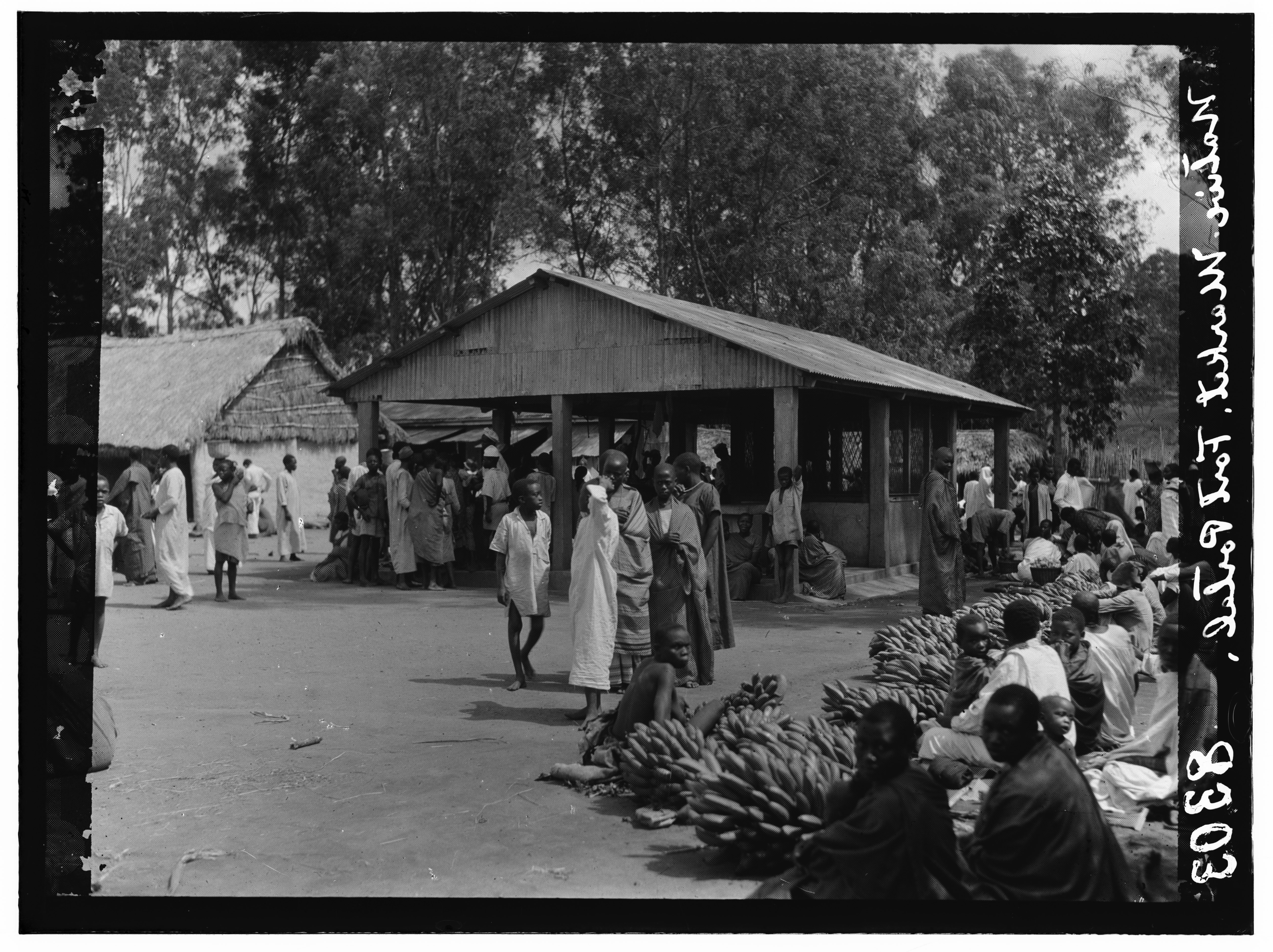 Title: Uganda. From Hoima to Fort Portal. The native market Abstract/medium: G. Eric and Edith Matson Photograph Collection Physical description: 1 negative